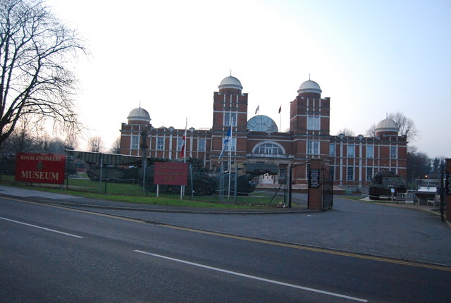 Royal Engineers Museum, Prince Arthur Rd, Gillingham (2)